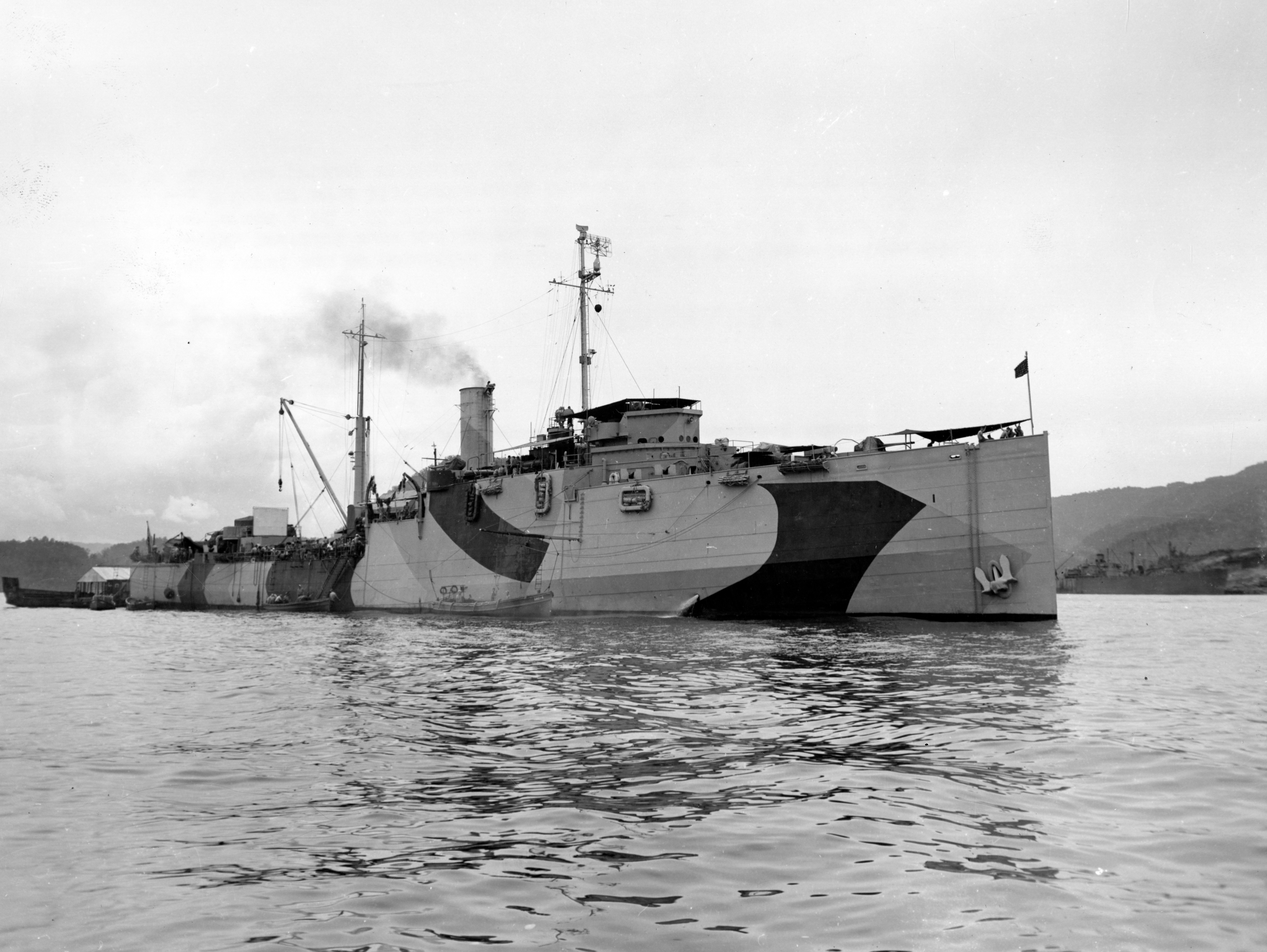 The U.S. Navy internal combustion engine repair ship USS Oglala (ARG-1) in the Southwestern Pacific area, circa 1944. She is painted in camouflage Measure 32, Design 6d. After arriving at Milne Bay, New Guinea, in April 1944, Oglala began tending patrol, mine and landing craft. She shifted her base to Hollandia, New Guinea, in July and to Leyte, Philippine Islands, in December 1944. She returned to the United States for decomissioning in early 1946.